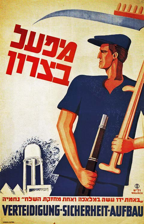 Recruitment poster, 1930, published in Prague for use in Germany